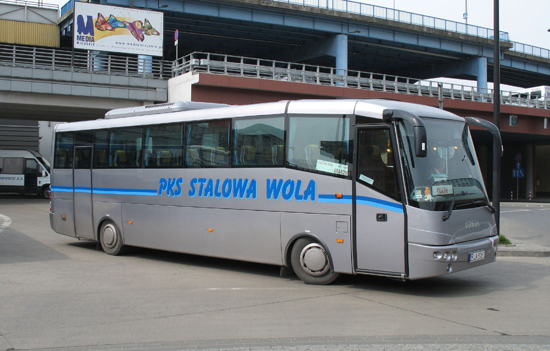 Solbus C 10,5/1 bus (reg. RLA 90HY) in Kraków, Poland. Built 2006, PKS Stalowa Wola operator.